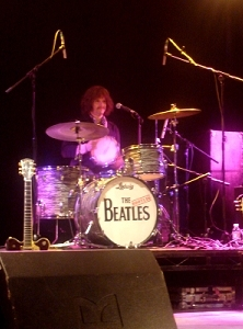 Hugo Degenhardt of the Bootleg Beatles (playing Ringo Starr).